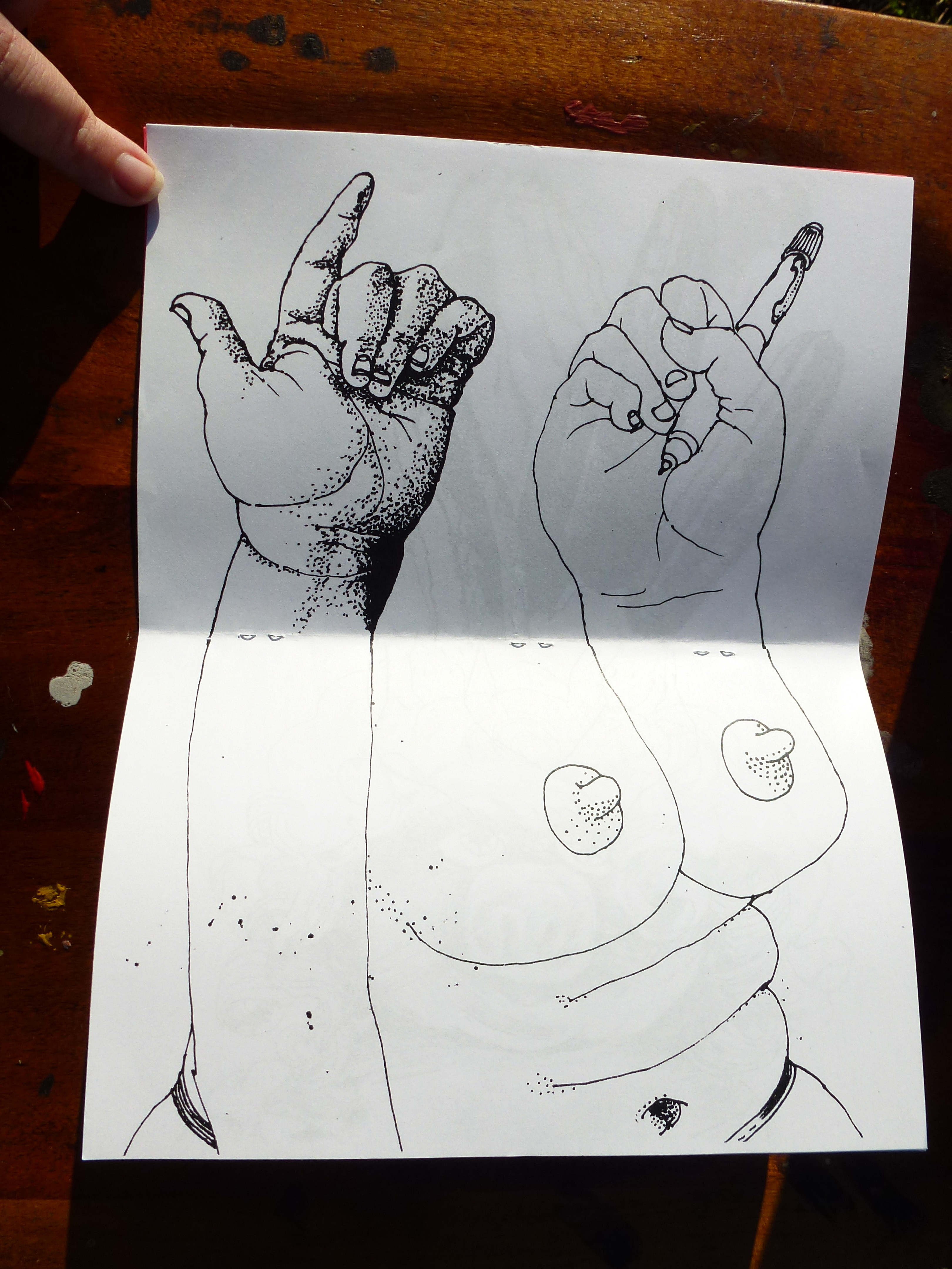 Exquisite corpse (cadavre exquis) drawing by Noah Ryan and Erica Parrott, from Exquisite Corpse Zine img